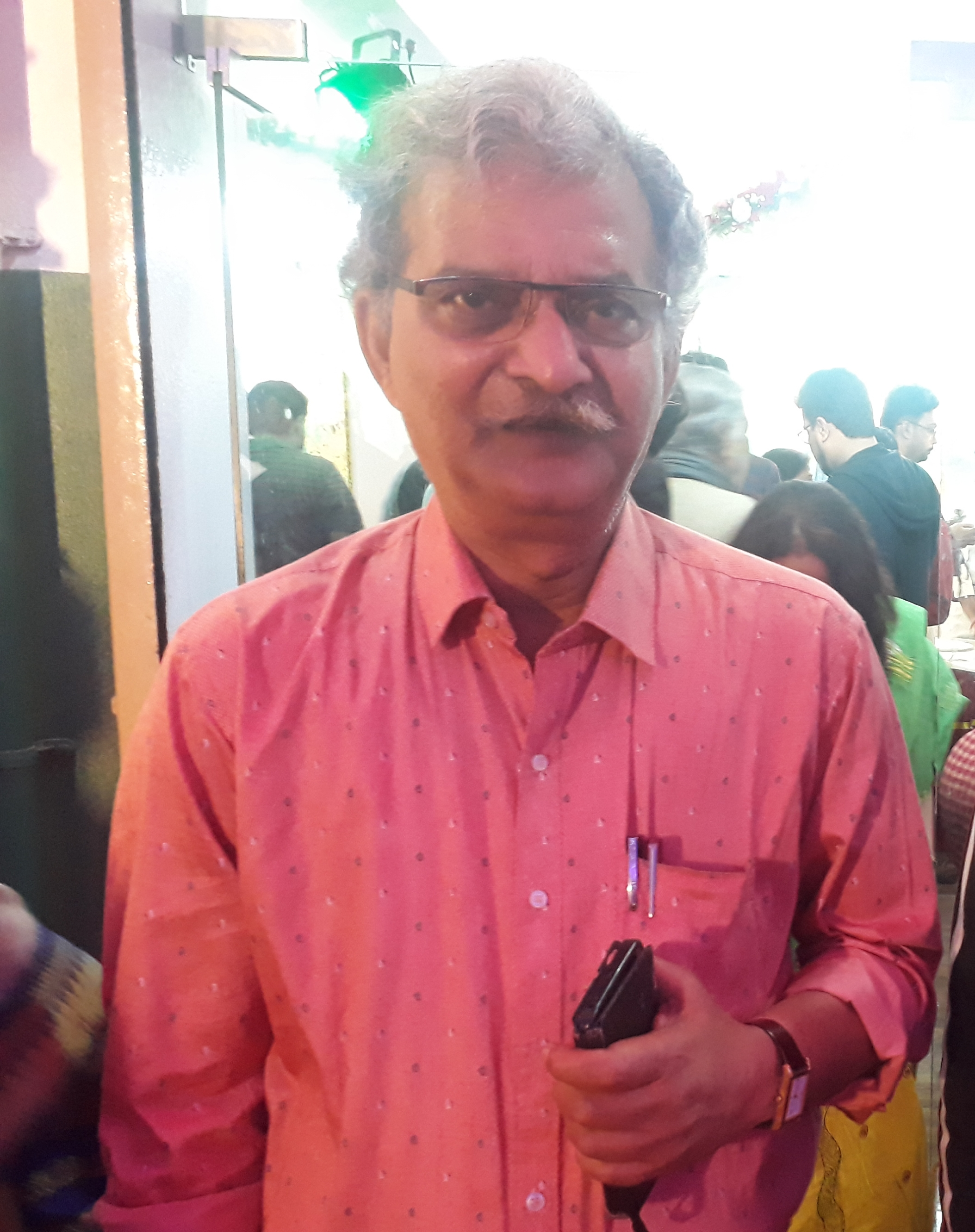 Mridul Dashgupta, a Bengali poet and journalist